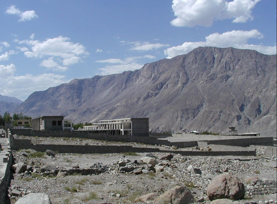 A view from the city of Gilgit, Northern Areas of Pakistan.